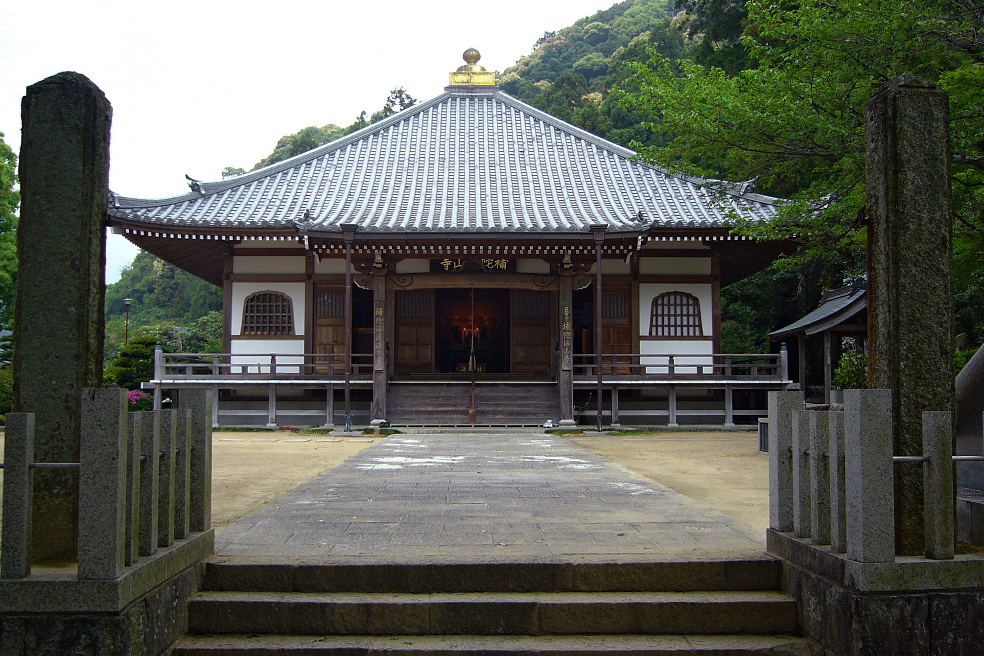 Fudarakusan-ji in Nachikatsuura, Wakayama prefecture, Japan